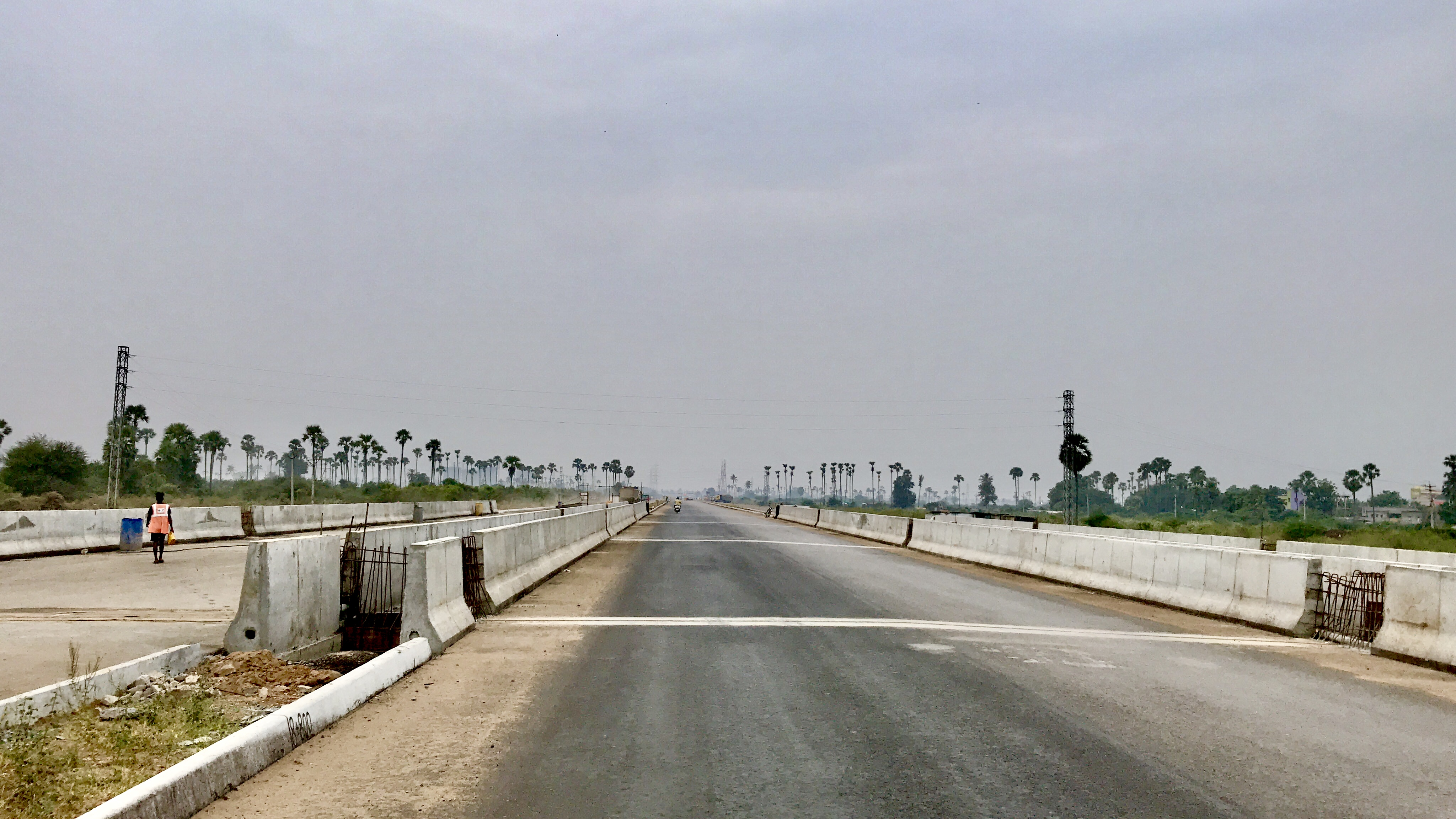 Amaravati Greenfield capital city road construction works as on November 2018